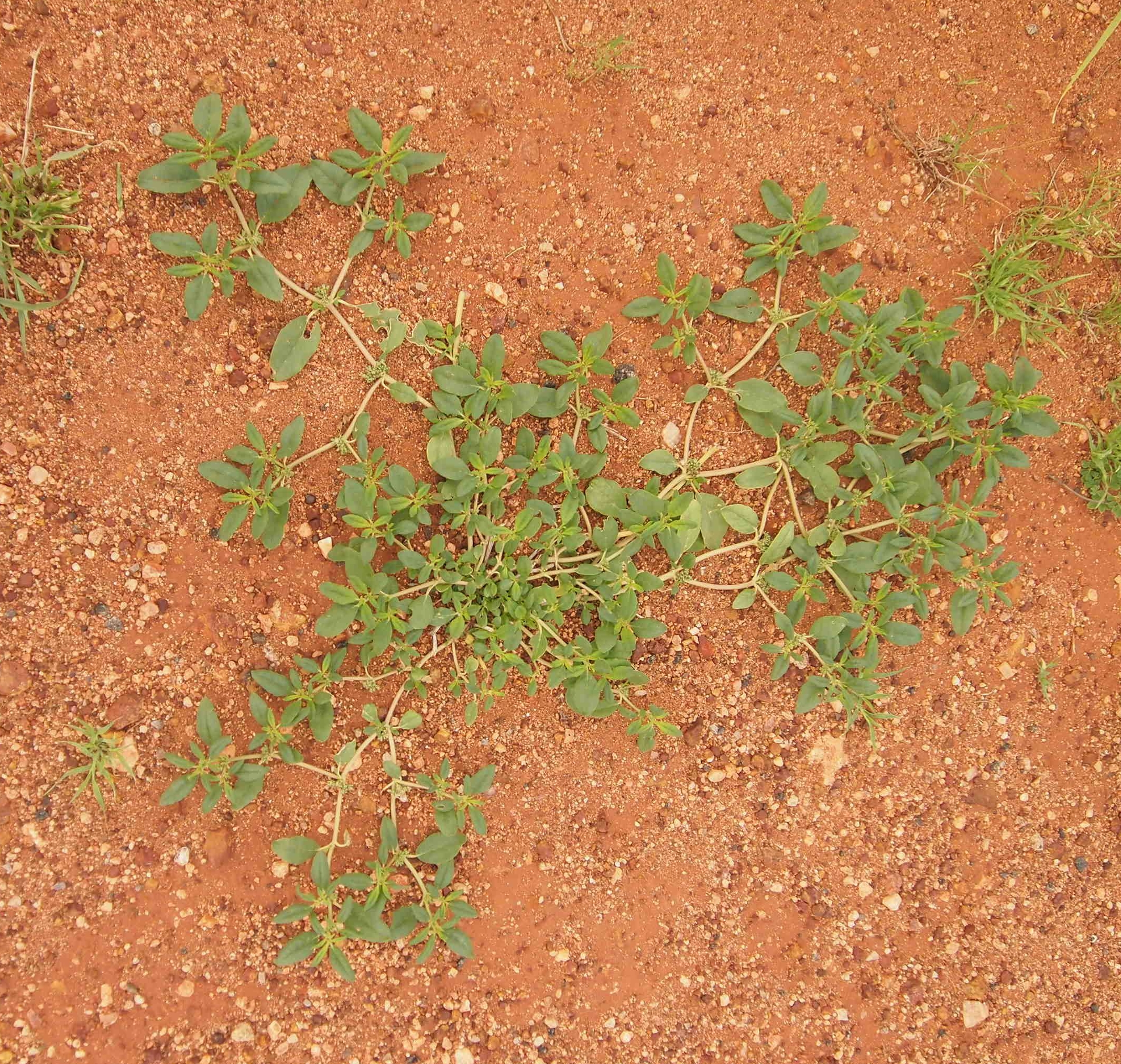 Tetragonia eremaea'